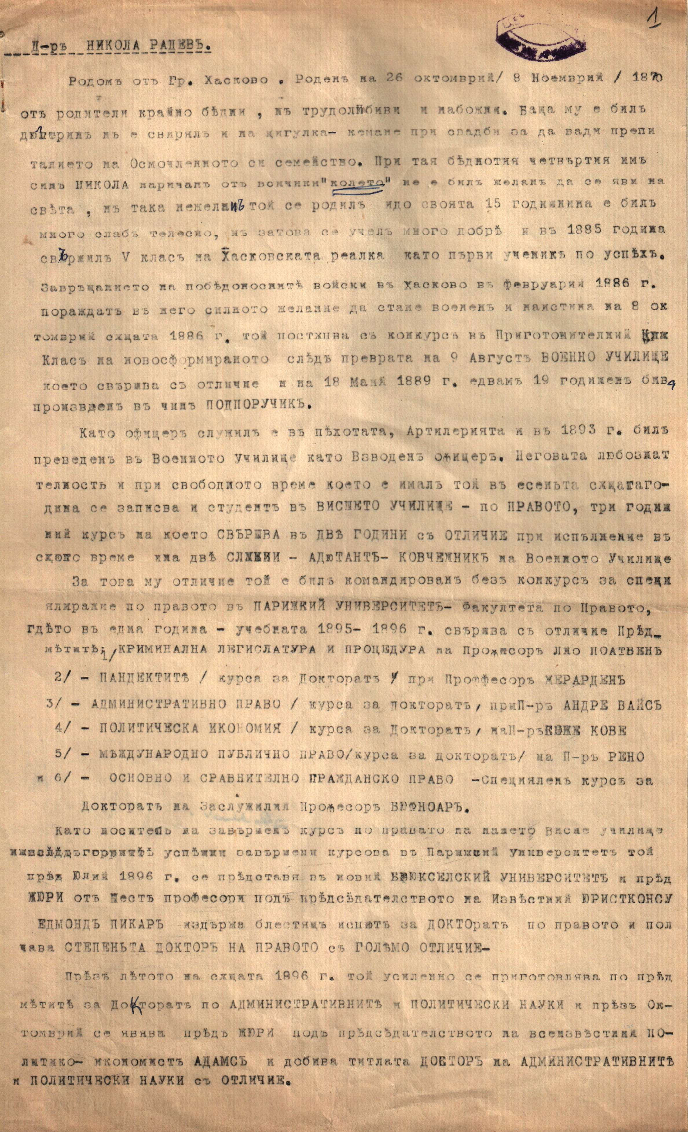 Nikola Radev biography